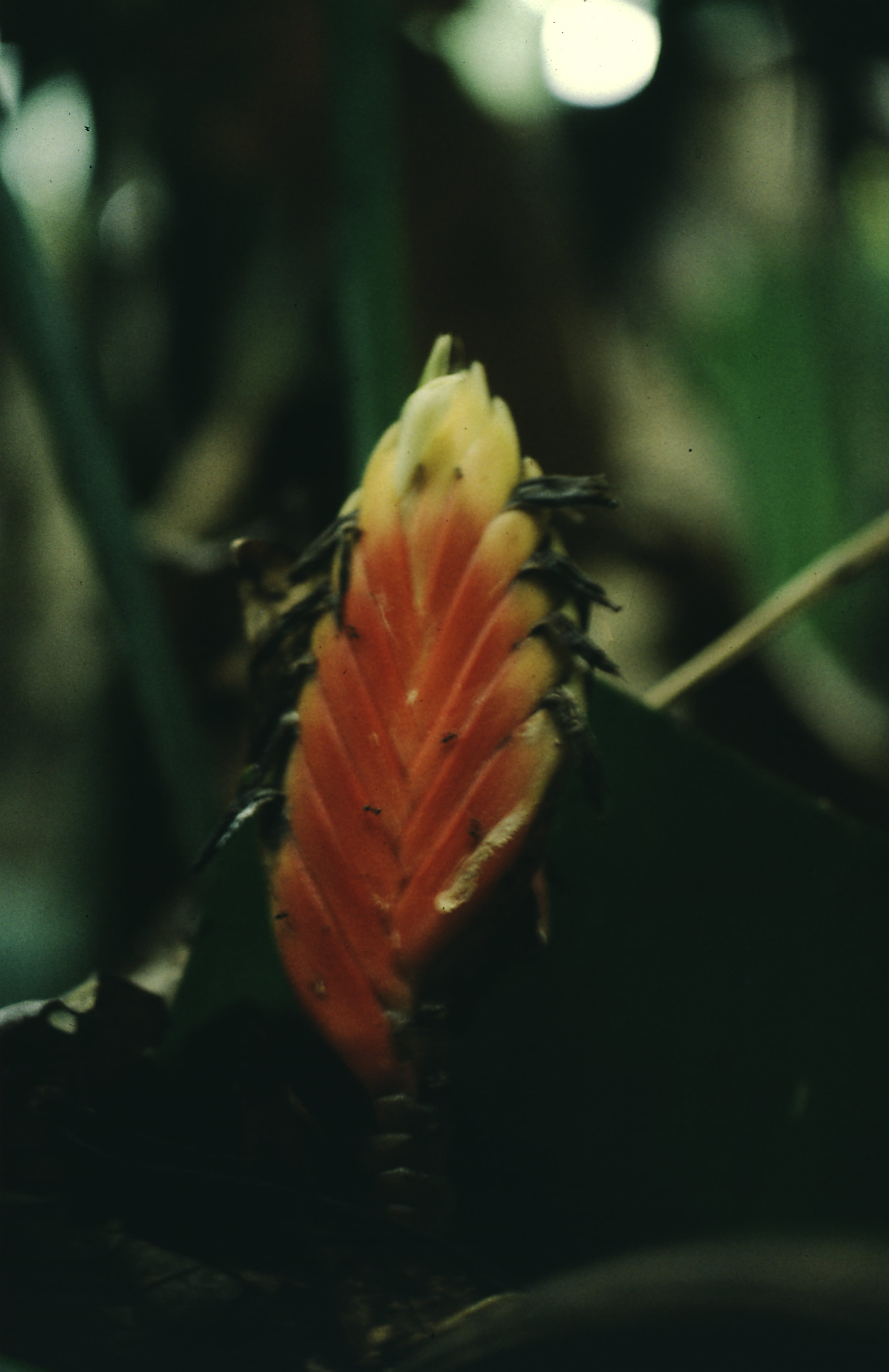 This photo has been scanned with a Reflecta DigitDia 6000 image scanner.